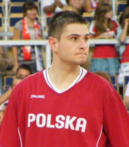 Dardan Berisha, basketball player from Poland